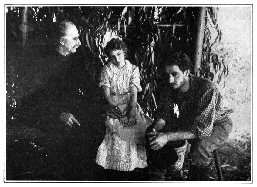 Bessie Love and other cast members in The Dawn of Understanding (1918)